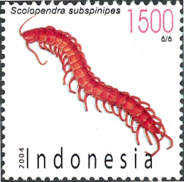 Stamps of Indonesia